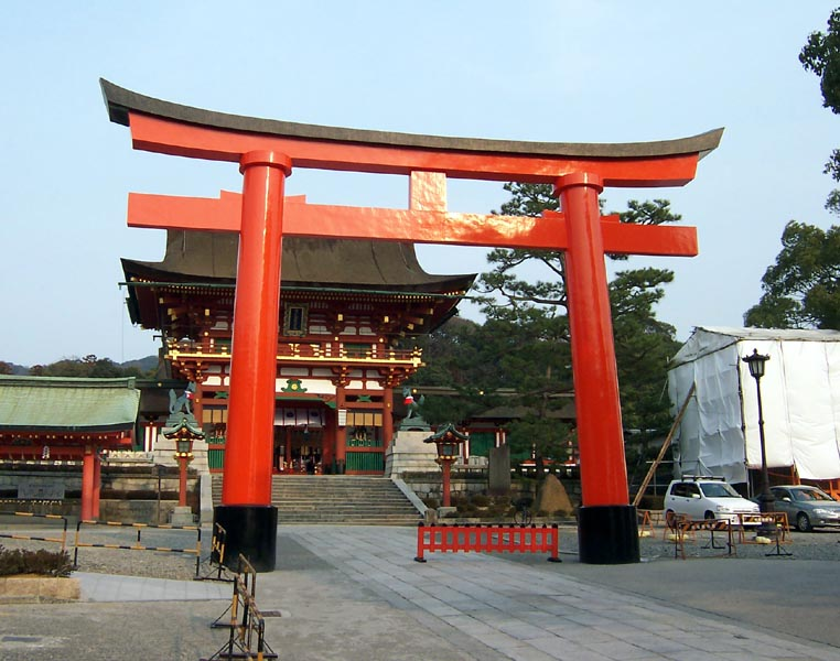 Fushimi Inari - the place you go when you want success in business. Therefore, it's a well-provisioned shrine.